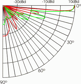 Radiation pattern antenna array